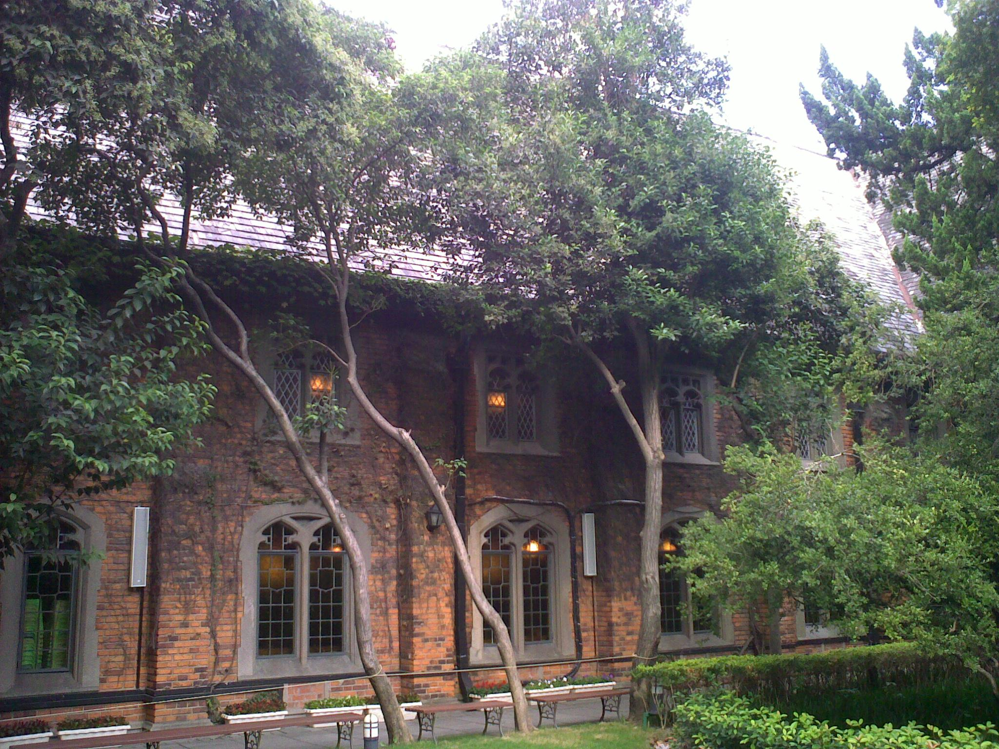 Shanghai Community Church, Hengshan Road No. 53.